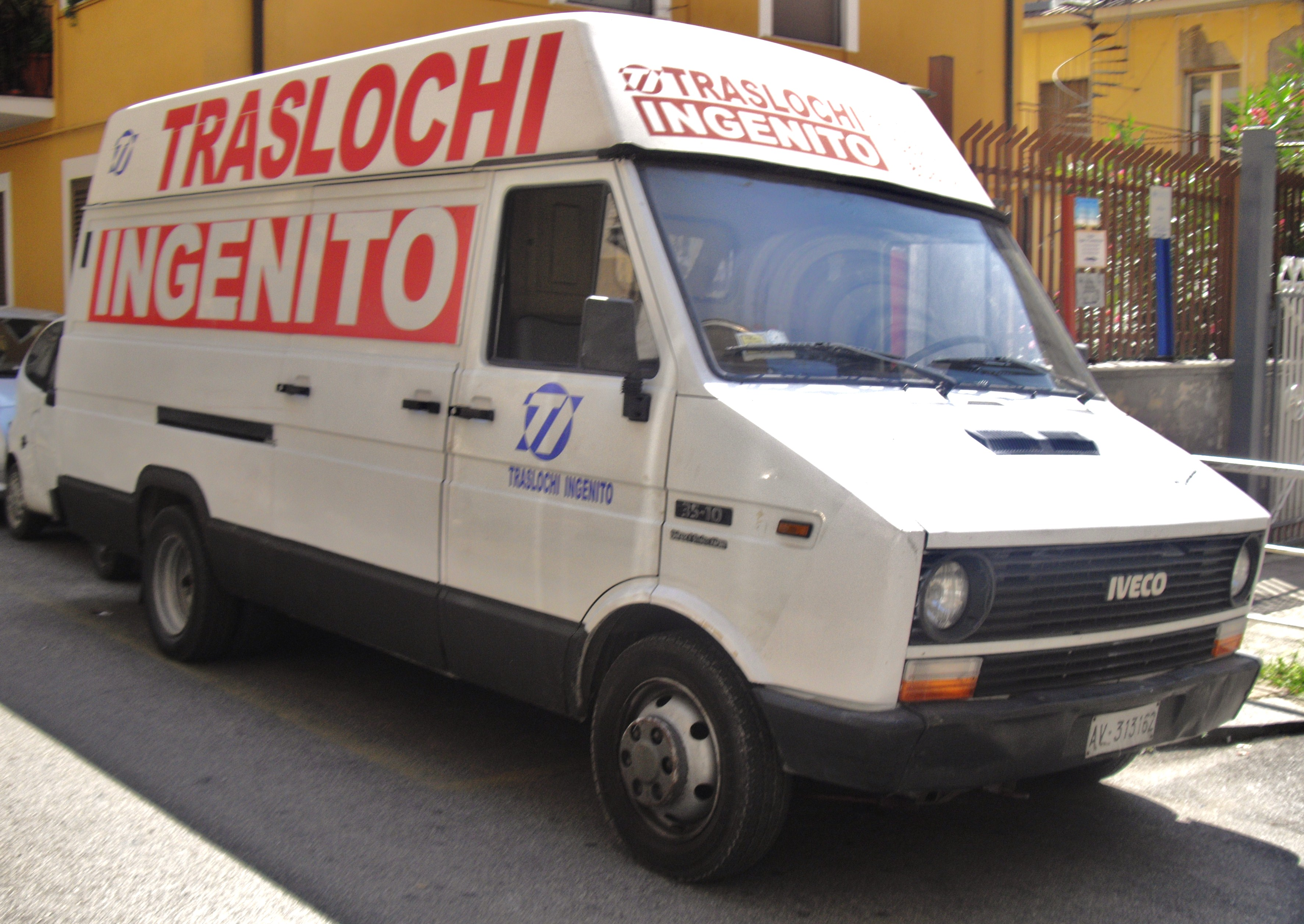 Iveco Daily 35-10 Direct Injection